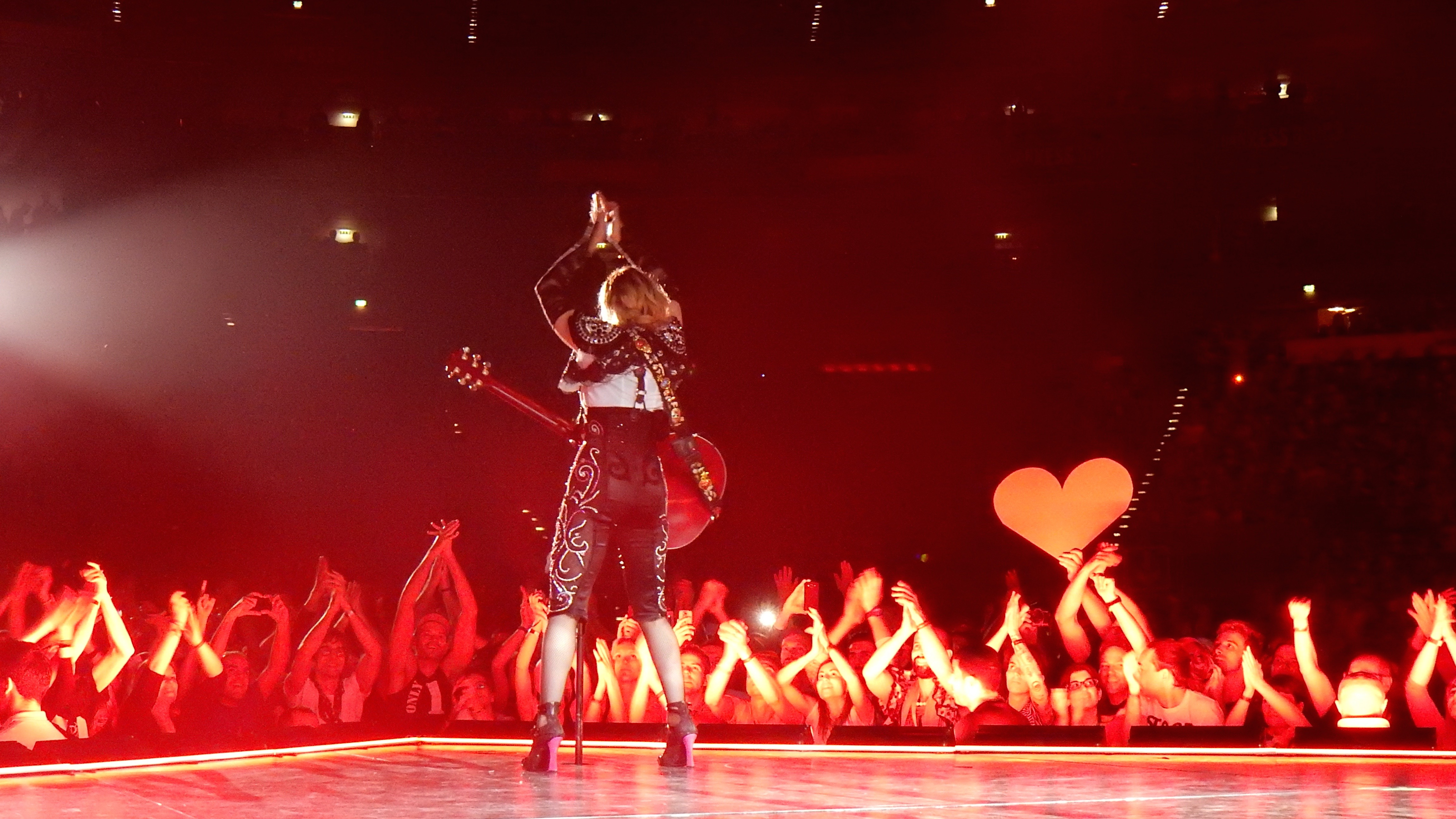 Madonna - Rebel Heart Tour Cologne 2 Madonna - Rebel Heart Tour Cologne 2